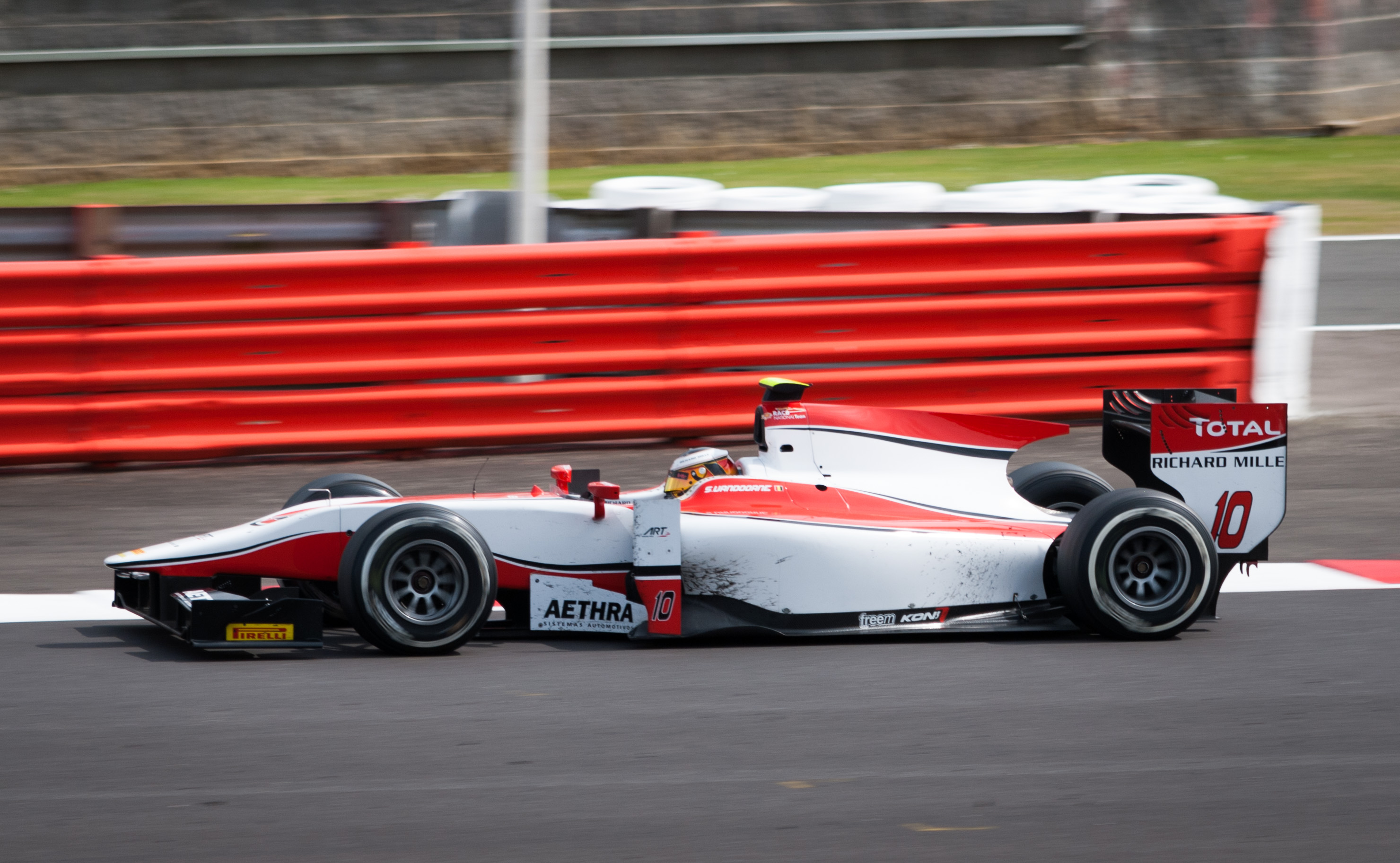 Stoffel Vandoorne driving for ART Grand Prix at Silverstone. Round 5 of the 2014 GP2 Series Championship.